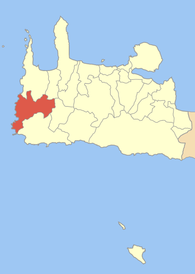 Locator map of Innachori municipality (Δήμος Ινναχωρίου) in Chania prefecture (Νομός Χανίων) in Greece.